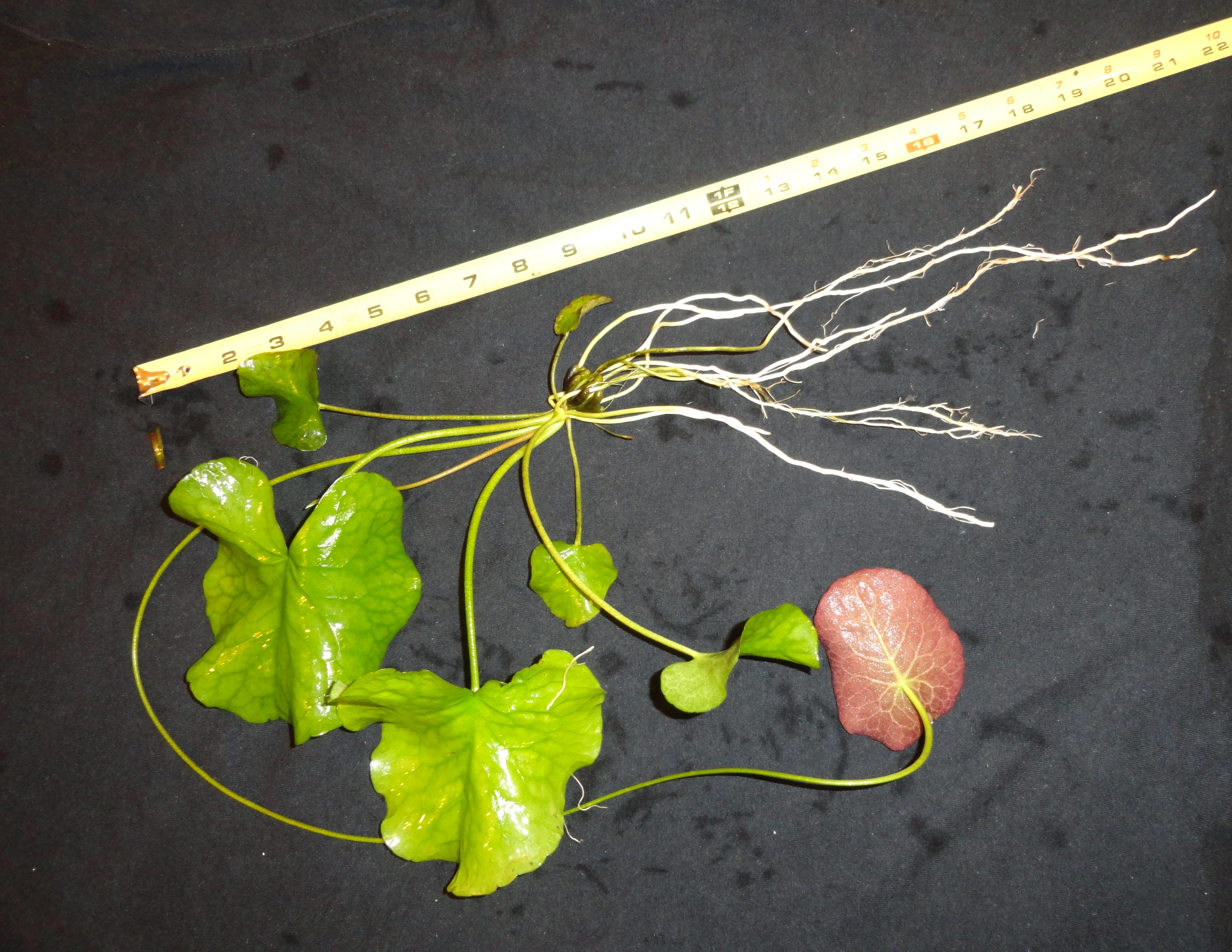 This is an aquarium specimen of Nymphoides aquatica. For scale, the tape measure is in USA inches. The "banana" portion of the plant is near the 8-9 inch mark. The white roots on the leaves are just debris, not actual growth.